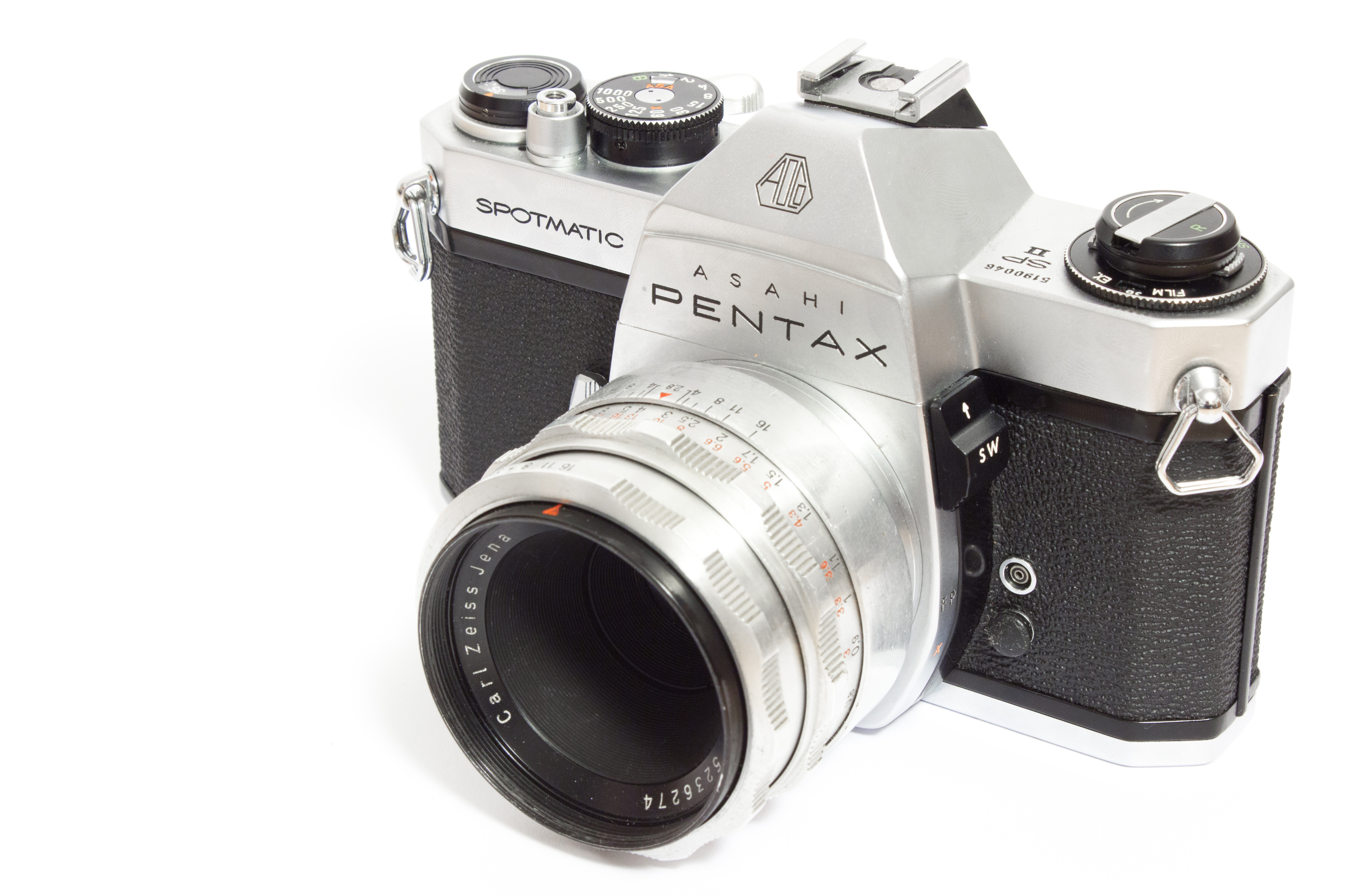 Home studiu Shot of the Japanese Pentay Spotmatic analog camera with a east German Carl Zeiss Tessar aluminium edition 50mm f2.8.